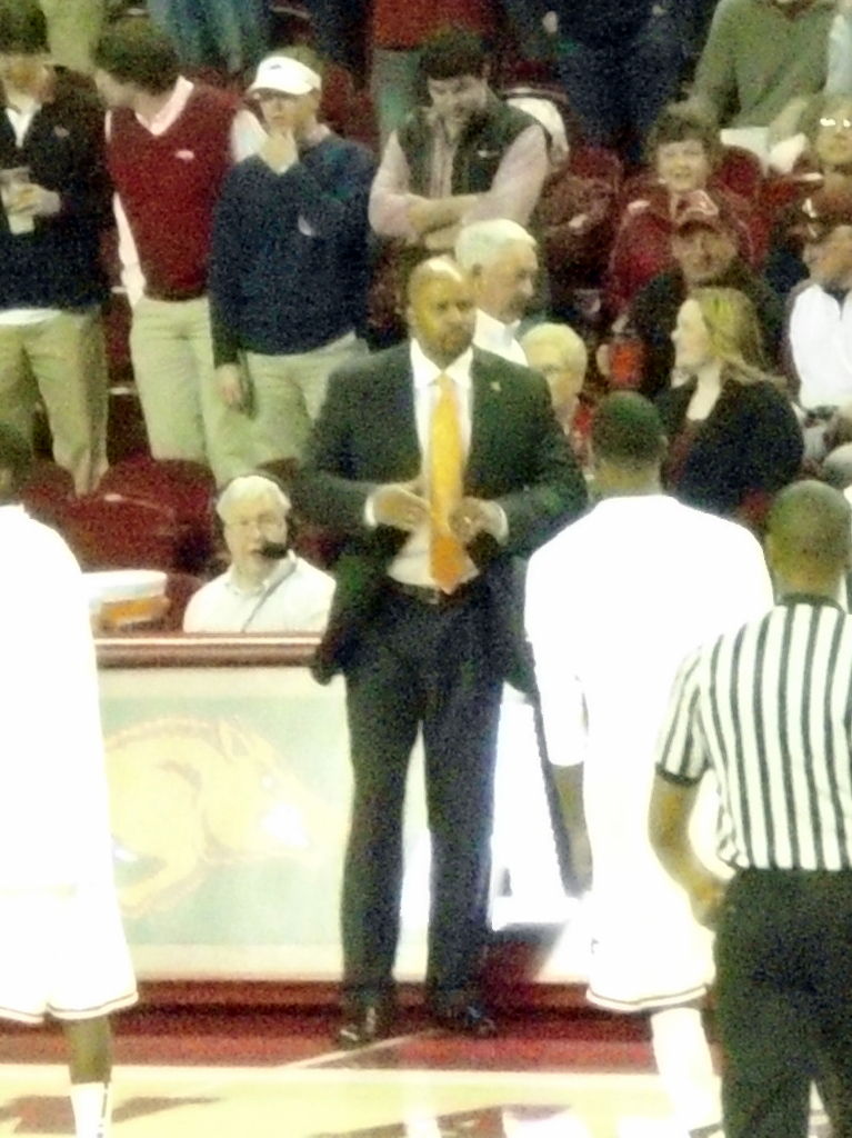 Cuonzo Martin coaching the Tennessee Volunteers basketball team against the Arkansas Razorbacks in Bud Walton Arena